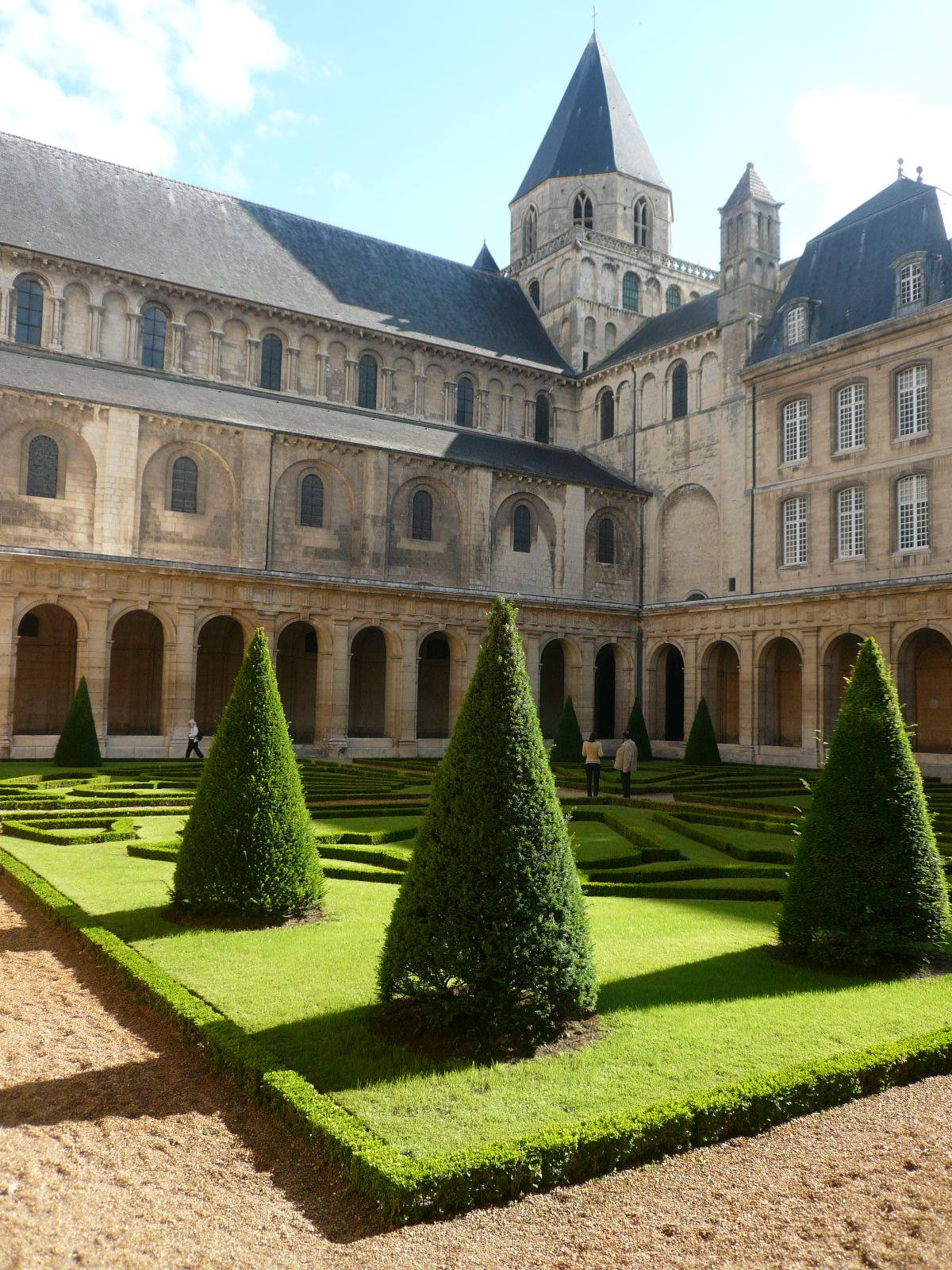 Cloister and church of Saint-Étienne (St Stephen) in the Abbaye aux Hommes, Caen (Calvados, Basse-Normandie.